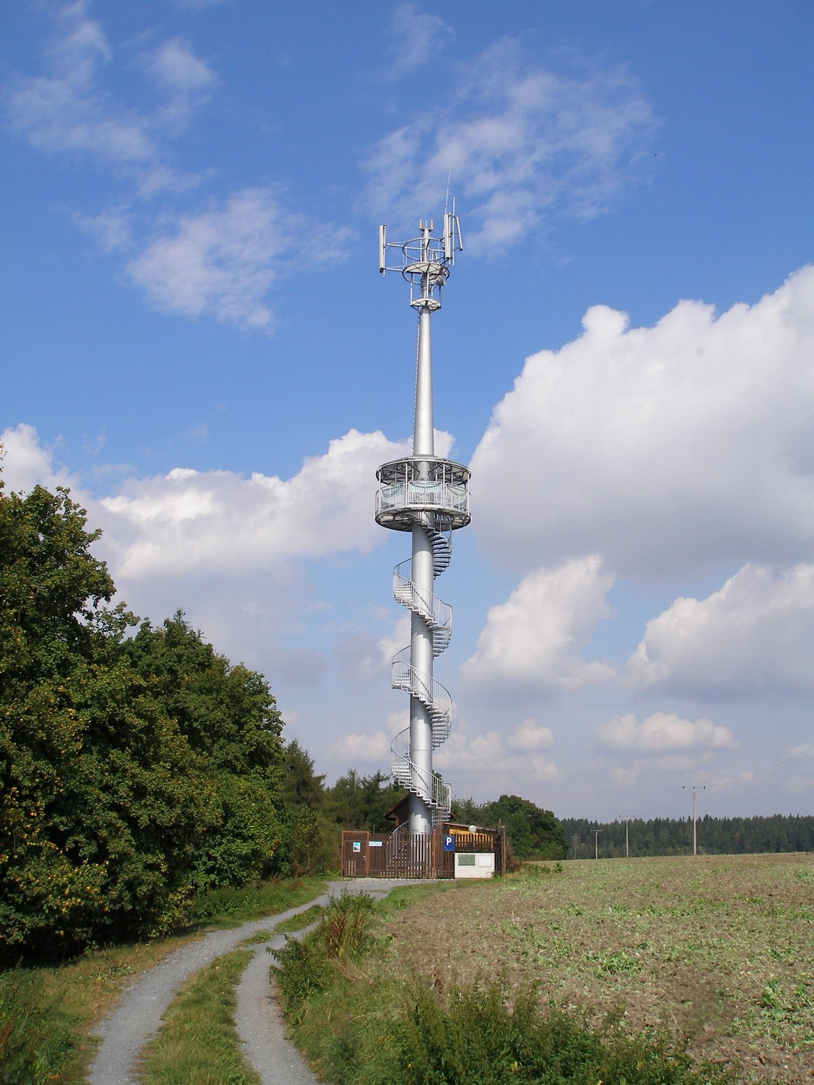 Mackova hora - observation tower, Nové Strašecí, Czechia